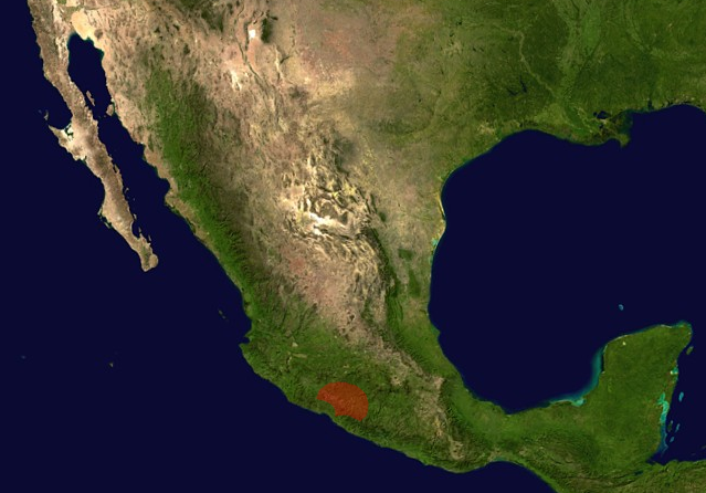 Distribution of Brachypelma auratum in Mexico.